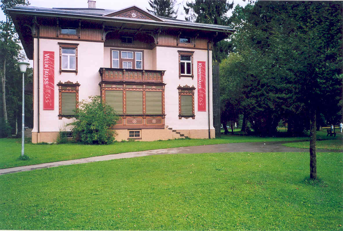 Villa Jauss in Oberstdorf